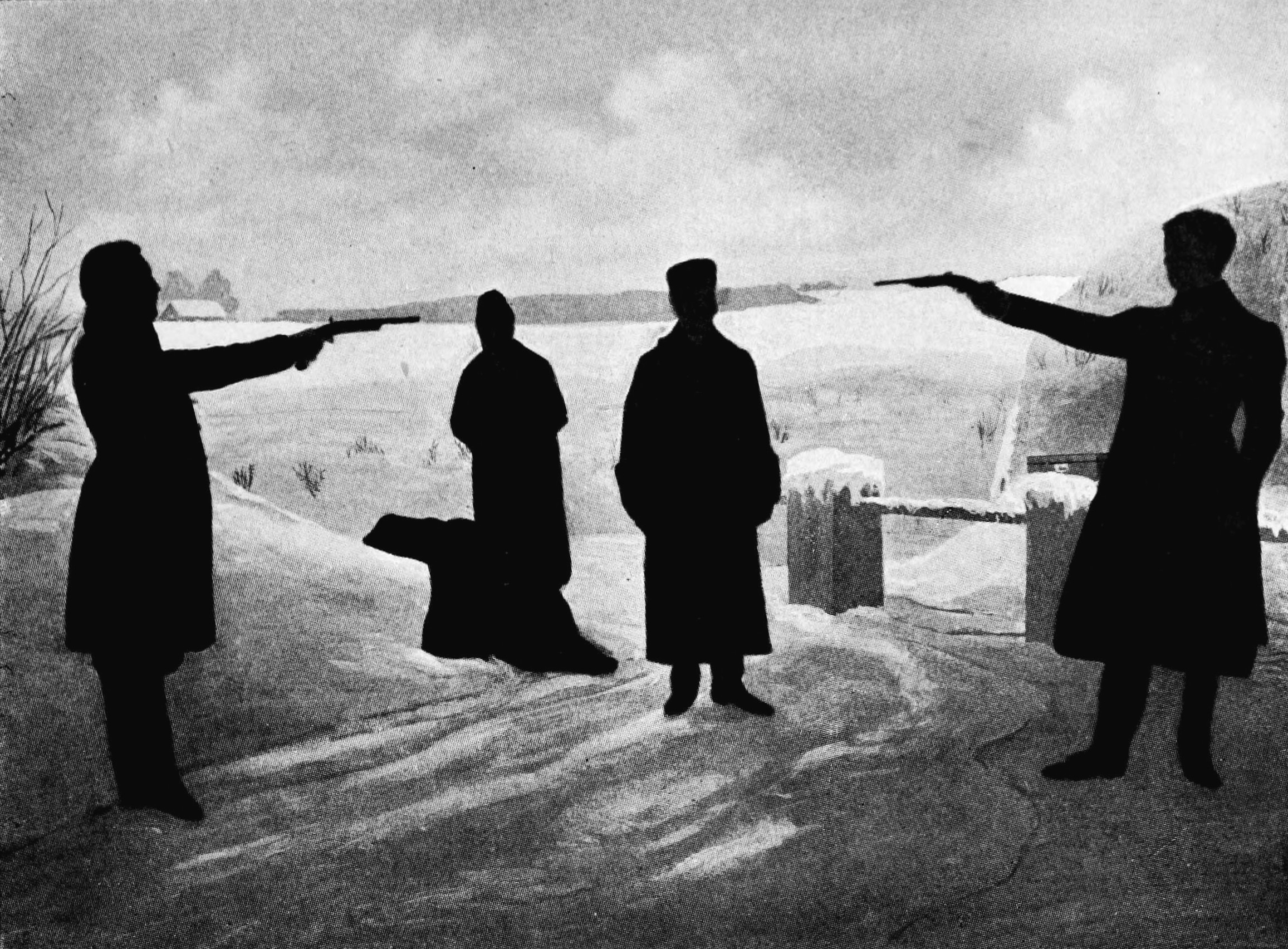 Eugen Onegin - Striking setting of the duel scene at the Berlin Opera Title: The Victrola book of the opera : stories of one hundred and twenty operas with seven-hundred illustrations and descriptions of twelve-hundred Victor opera records Year: 1917 (1910s) Authors: Victor Talking Machine Company Rous, Samuel Holland Subjects: Operas Publisher: Camden, N.J. : Victor Talking Machine Co. Text Appearing Before Image: ' Text Appearing After Image: PHOTO Rembrandt STRIKING SETTING OF THE DUEL SCENE AT THE BERLIN OPERA EUGEN ONEGIN OPERA IN THREE ACTS Text by Tschaikowsky and Constantine Shilowsky, based on Alexander SergiewitchPushkins poetic romance of the same name. Music by Peter Iljitch Tschaikowsky. Firstproduced at St. Petersburg, 1879, following a performance by the students of the MoscowConservatory in March, 1879. First Berlin performance at the Victoria Theatre, 1888, andten years later at the Theatre des Westens; in Hamburg, 1892. First London production in1892; revived at Covent Garden in 1906 with Emmy Destinn as Tatiana. The work hasfigured frequently in the repertory of continental opera houses, but has had no adequateproduction on the opera stage in America. In 1914 J. M. Medvedieffs newly-formed operacompany gave three scenes at the Star Casino, New York, a popular East Side music hall.Several years ago Walter Damrosch brought out the work in concert form with the follow-ing cast: Characters MADAM LERIN, a lande